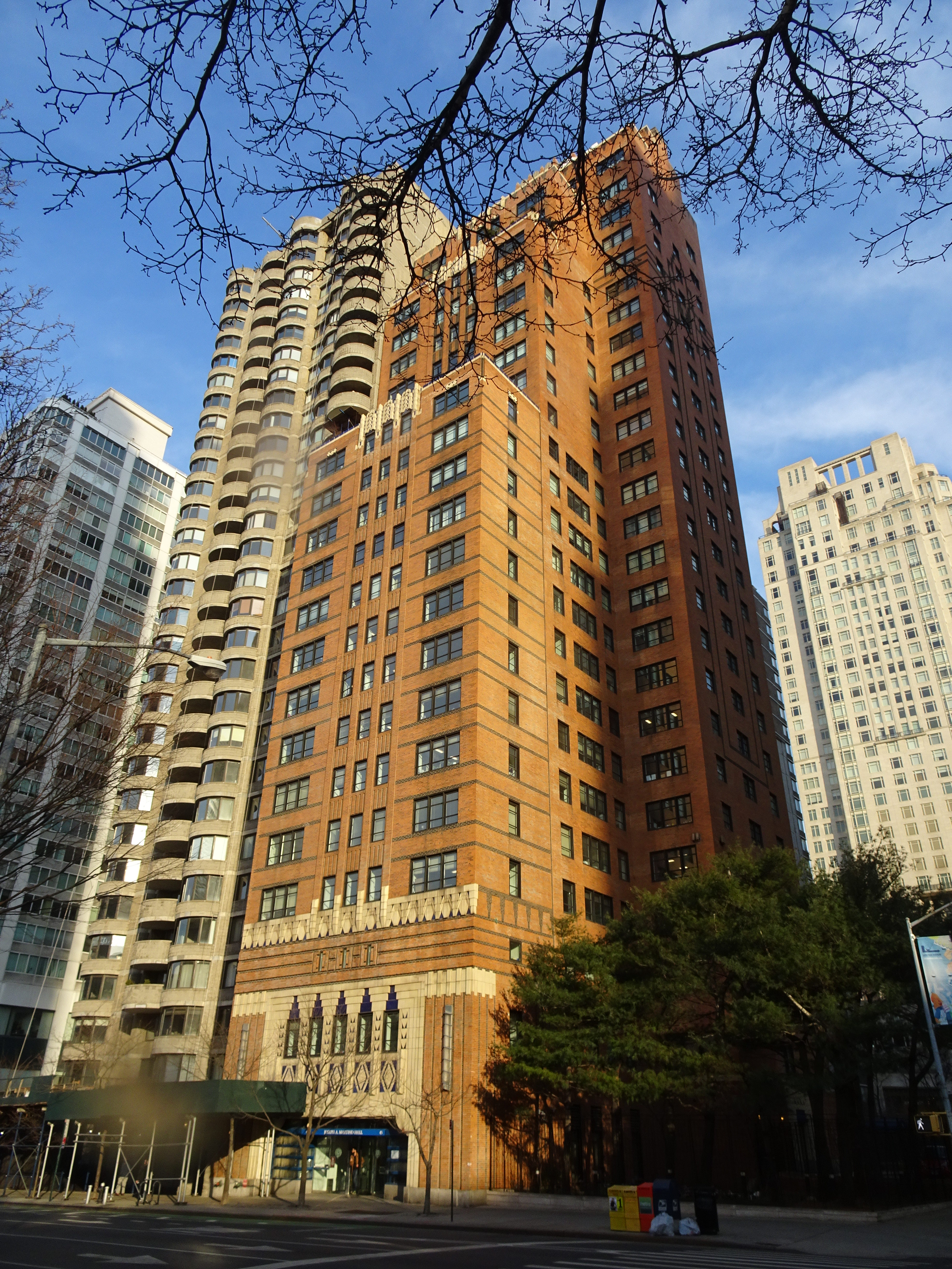 Looking east across 9th Avenue and 61st Street at Sophia on a sunny late afternoon.